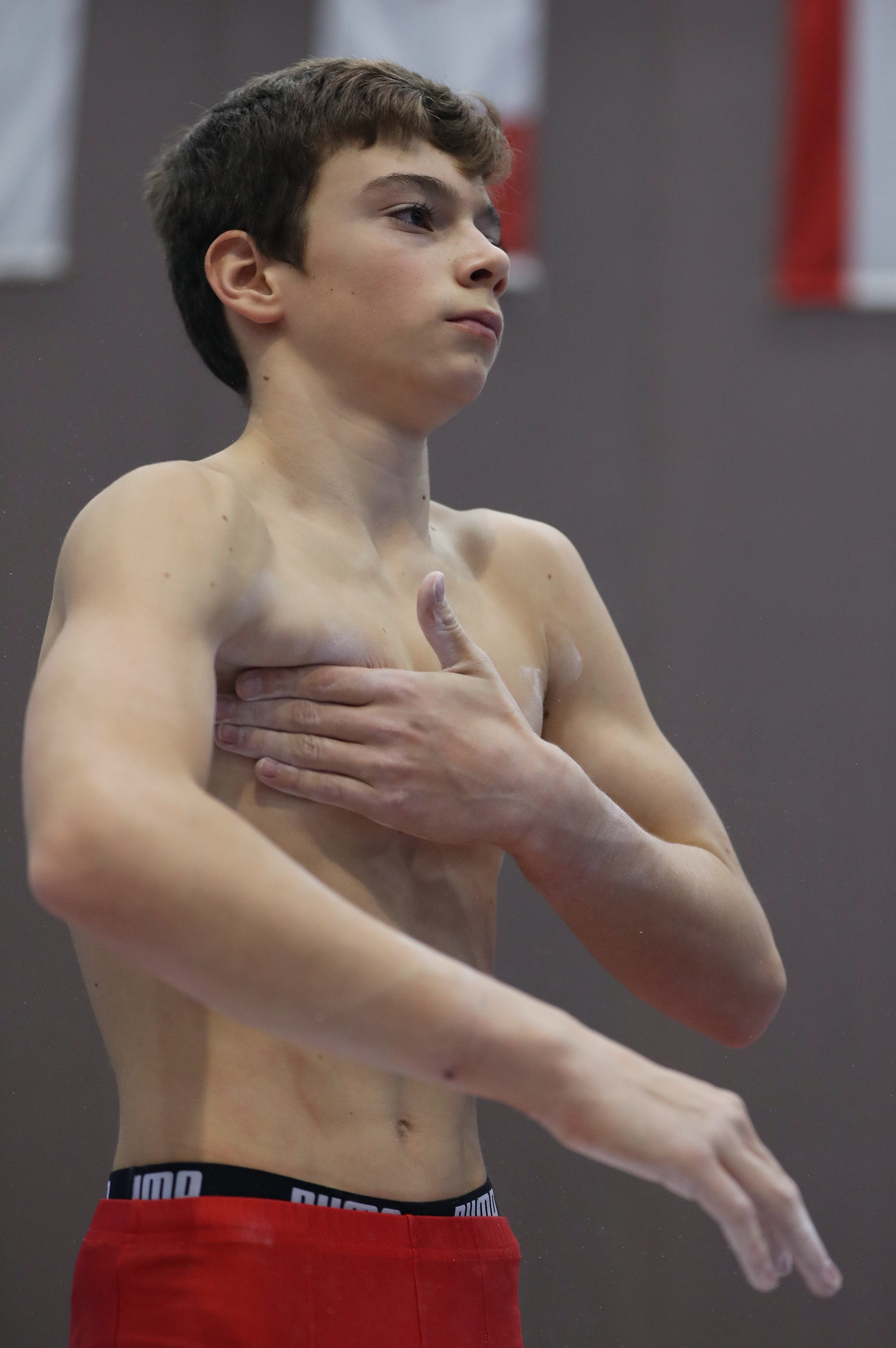 Morning training on pommel horse at the 15th Austrian TGW Future Cup Linz 2018. Depicted: David Bickel.